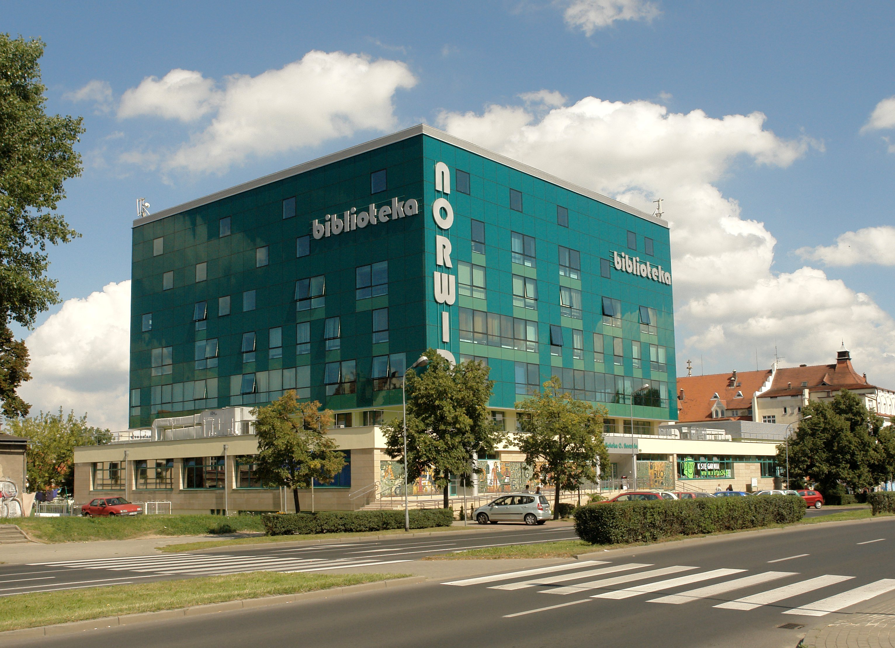 The public library in Zielona Góra, Poland